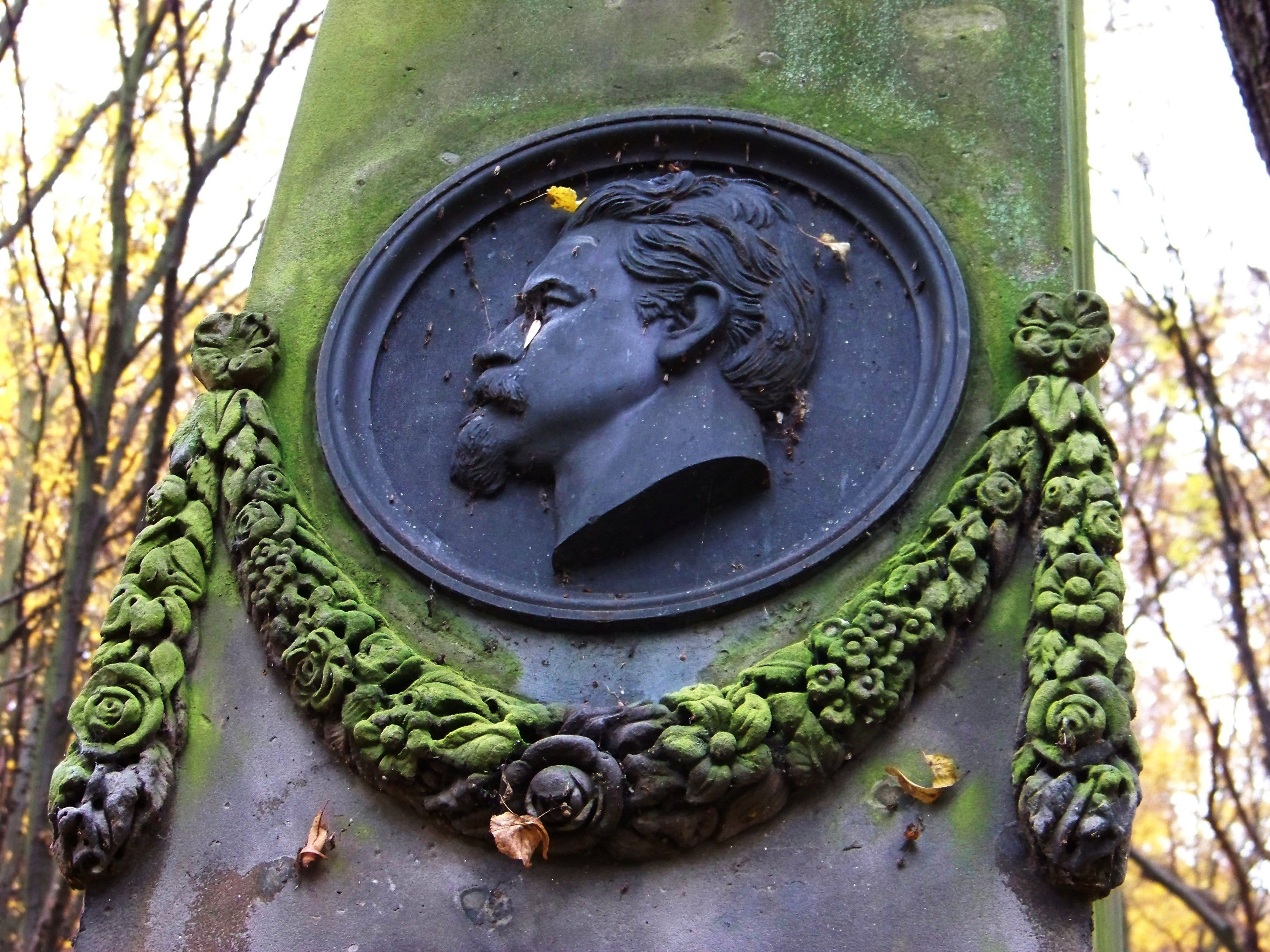 Dolní Břežany-Lhota, Prague-West District, Central Bohemian Region, the Czech Republic. Monument to Vítězslav Hálek.